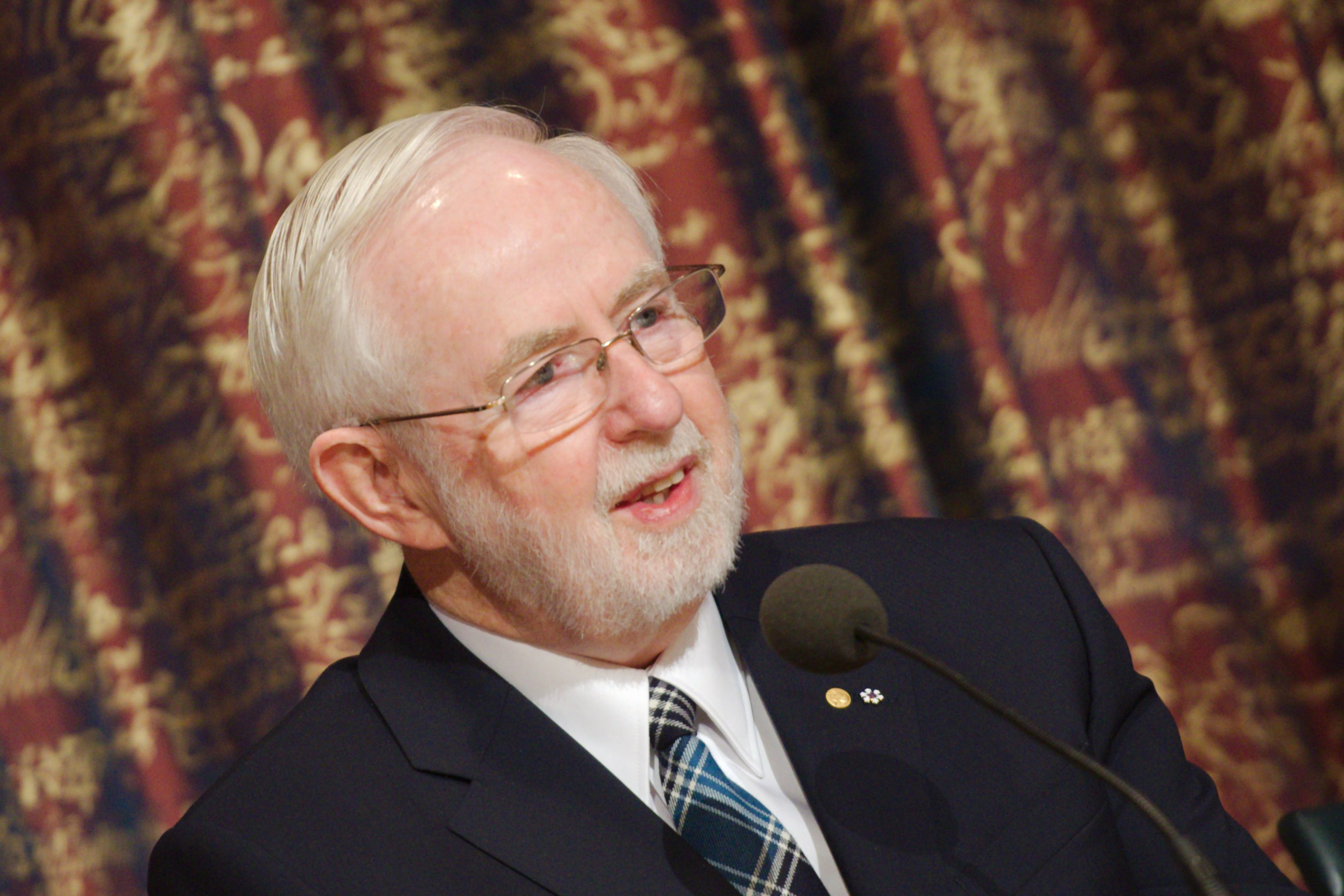 Arthur McDonald at a press conference at the Royal Swedish Academy of Sciences